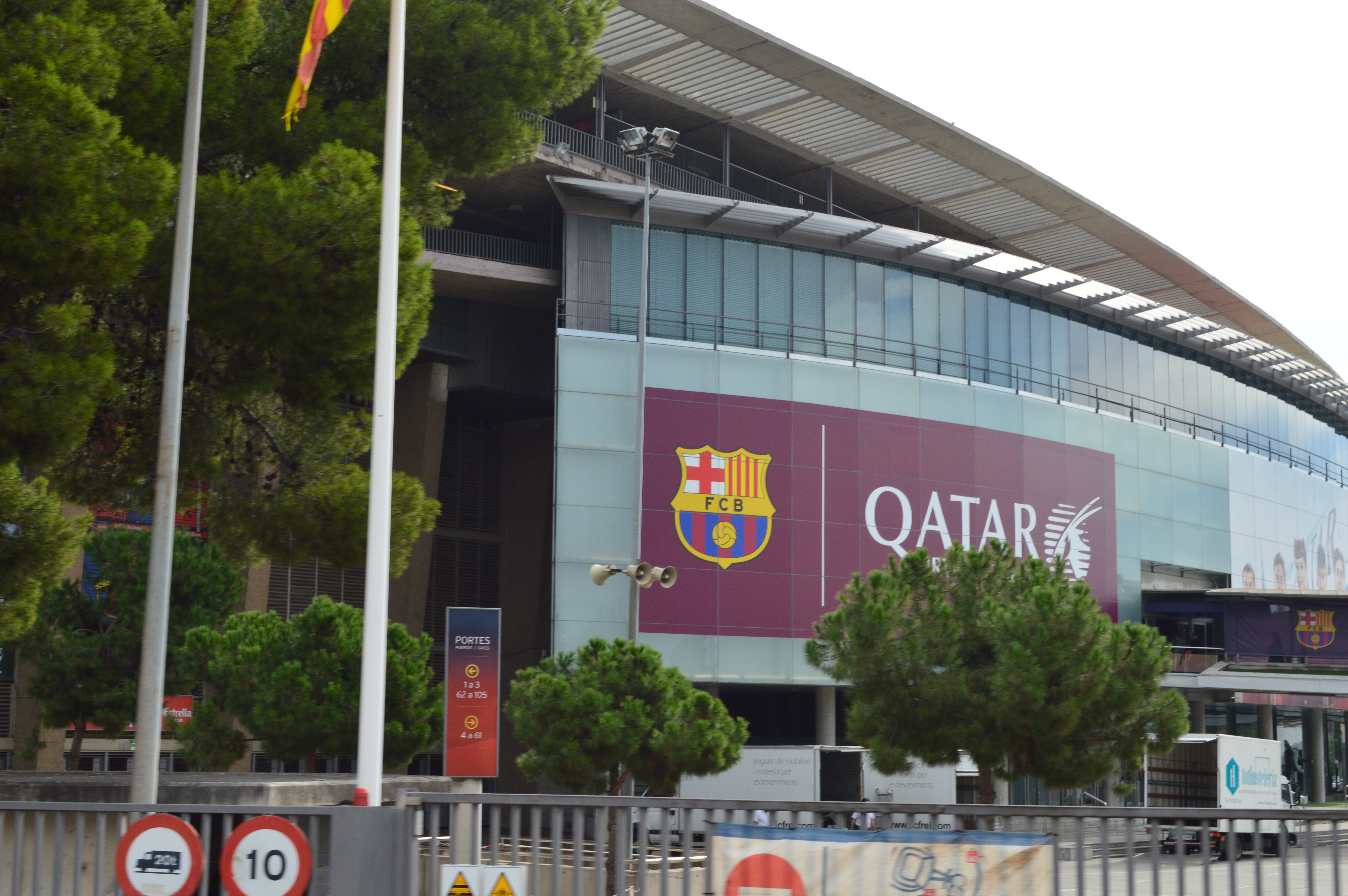 Camp Nou